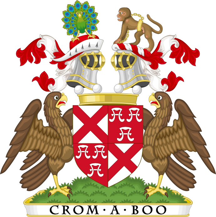 coat of arms of the baron de Ros - Premier baron of England Arms. Quarterly: 1st and 4th, Argent a Saltire Gules (Fitzgerald); 2nd and 3rd, Gules three Water Bougets Argent (de Ros). Crest. 1st: on a Chapeau Gules turned up Ermine a peacock in pride proper (de Ros); 2nd: a monkey statant proper environed about the middle with a Plain Collar and chained Or (Fitzgerald). Supporters. On either side a Falcon wings expanded and inverted proper. Motto. Crom A Boo (I will burn). Cracroft's Peerage